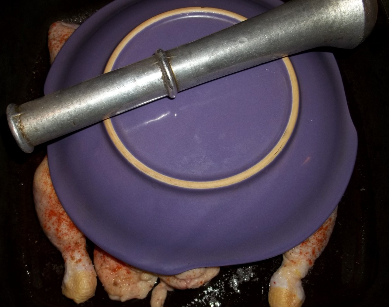 Cooking of chicken tabaka. Chicken is pressed by weight to the pan.